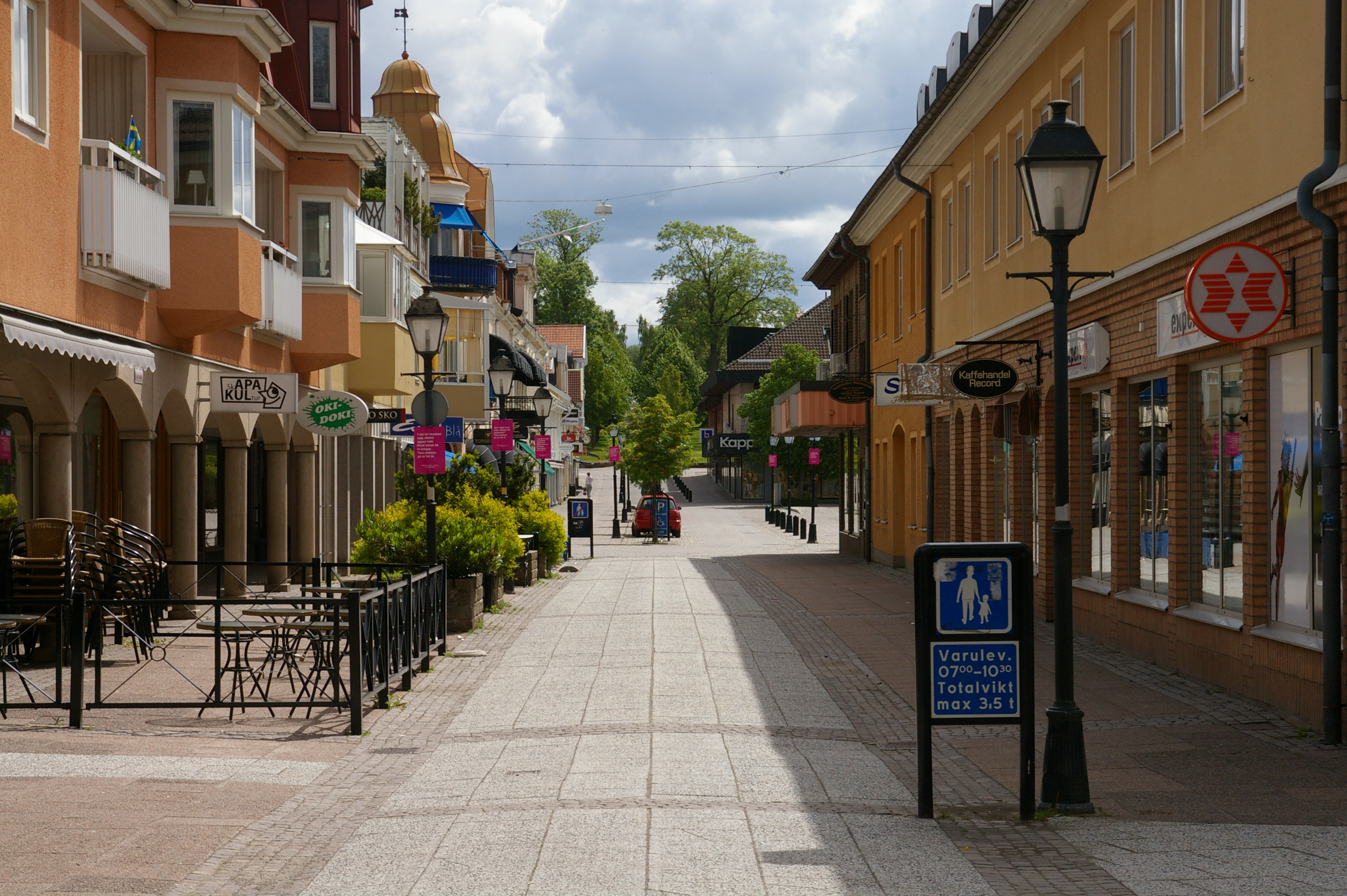 Storgatan in Falköping, Sweden